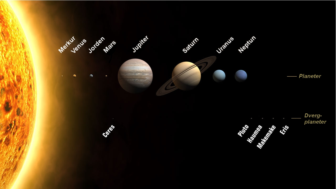 Planets of the solar systemNorsk bokmål: Solsystemets planeter